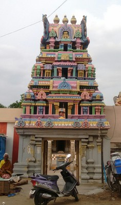 Melacauvery varadaraja perumal temple மேலக்காவேரி வரதராஜப்பெருமாள்கோயில்